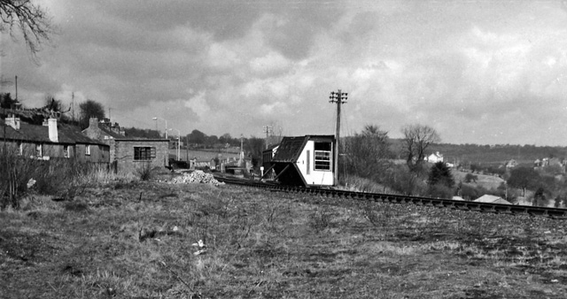 Blackwood (Mon.) Station (remains), near to Penmaen, Caerphilly/Caerffili, Great Britain. View northward, towards Argoed and Tredegar; ex-LNW Sirhowy Valley line (Nantybwch - Nine Mile Point - (Newport), closed to passengers 13/6/60 but only recently (8/2/65) to goods. What on earth has happened to the signalbox?!